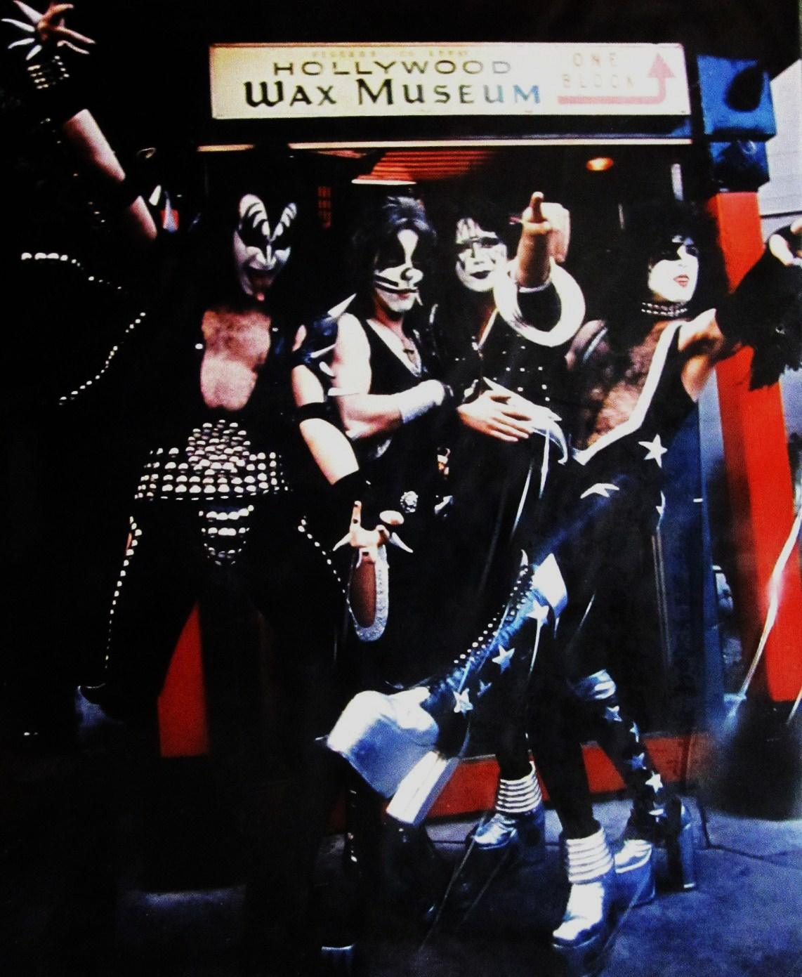 Kiss at Hollywood's Wax Museum (1975).